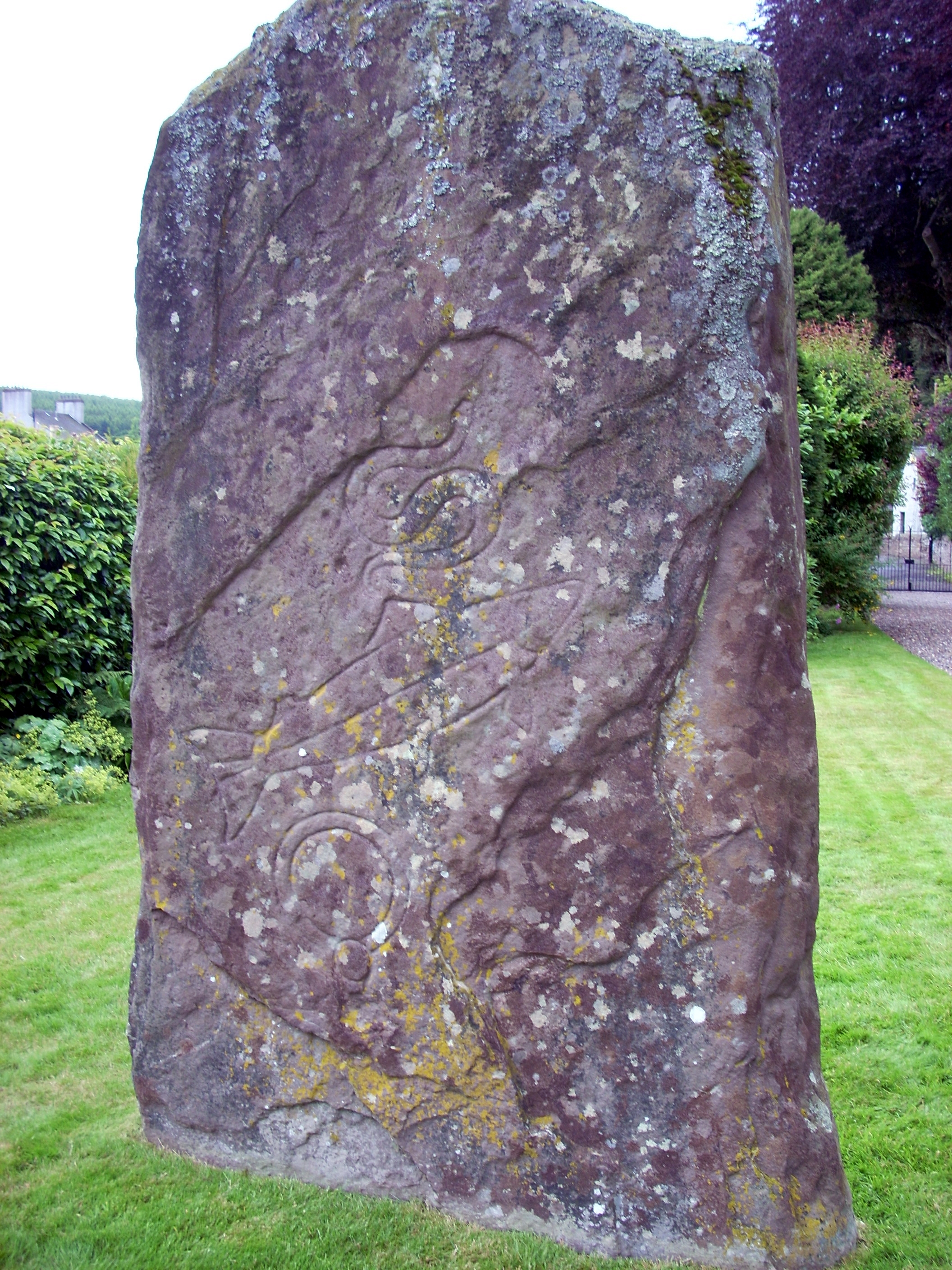 The Glamis Stone, a Pictish stone in the grounds of the Manse, by Glamis Church.